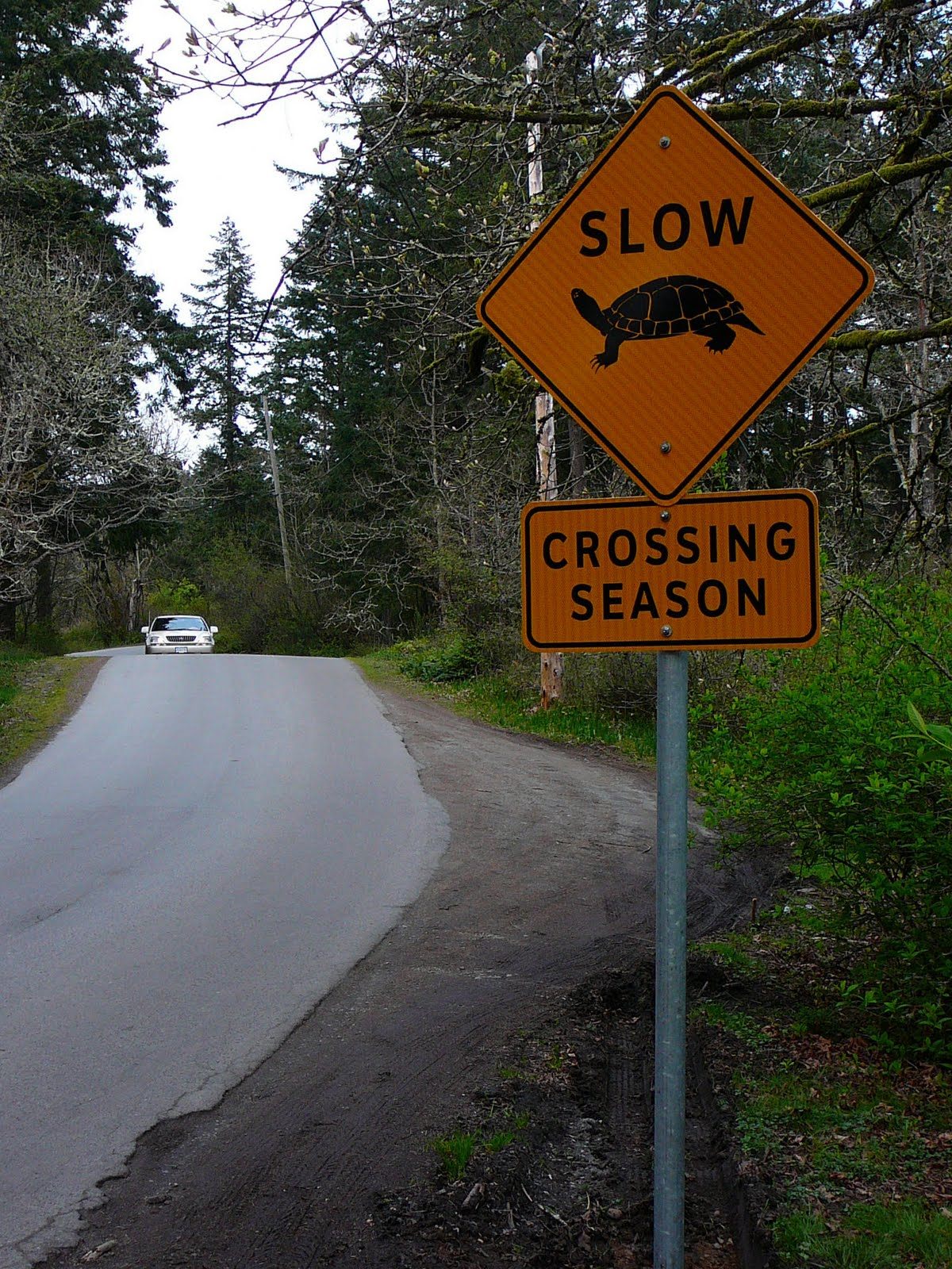 Turtle crossing sign in British Columbia. Erected to minimize deaths of endangered (in BC) painted turtles.